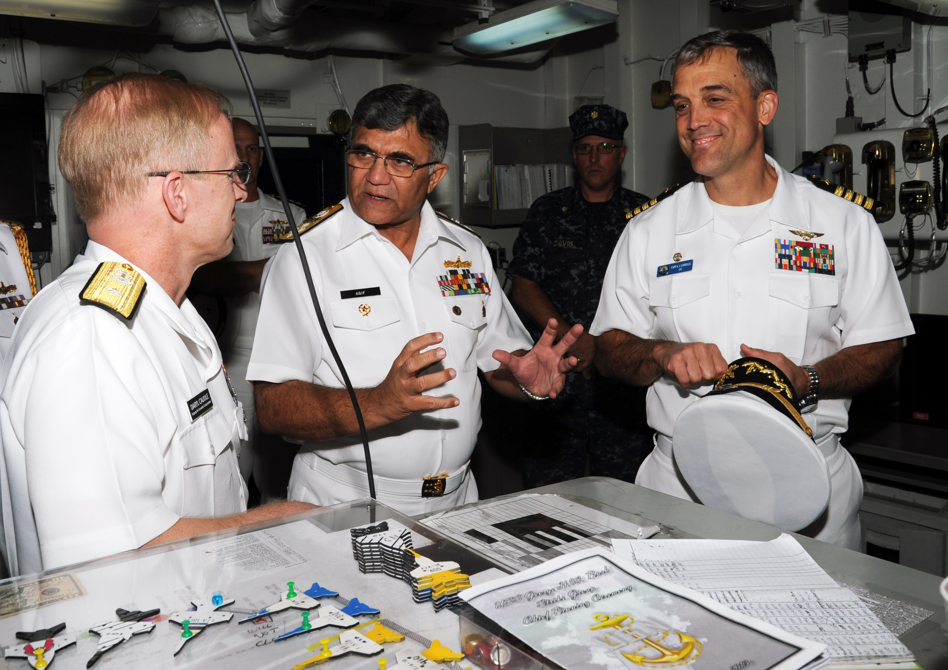 Pakistani Navy Chief of Naval Staff Adm. M. Asif Sandila, center, U.S. Navy Rear Adm. Daryl Caudle, left, and U.S. Navy Capt. Andrew J. Loiselle, the commanding officer of the aircraft carrier USS George H.W. Bush (CVN 77), discuss shipboard operations in flight deck control aboard the ship in Norfolk, Va., Sept. 18, 2013. The ship conducted training operations at its home port.